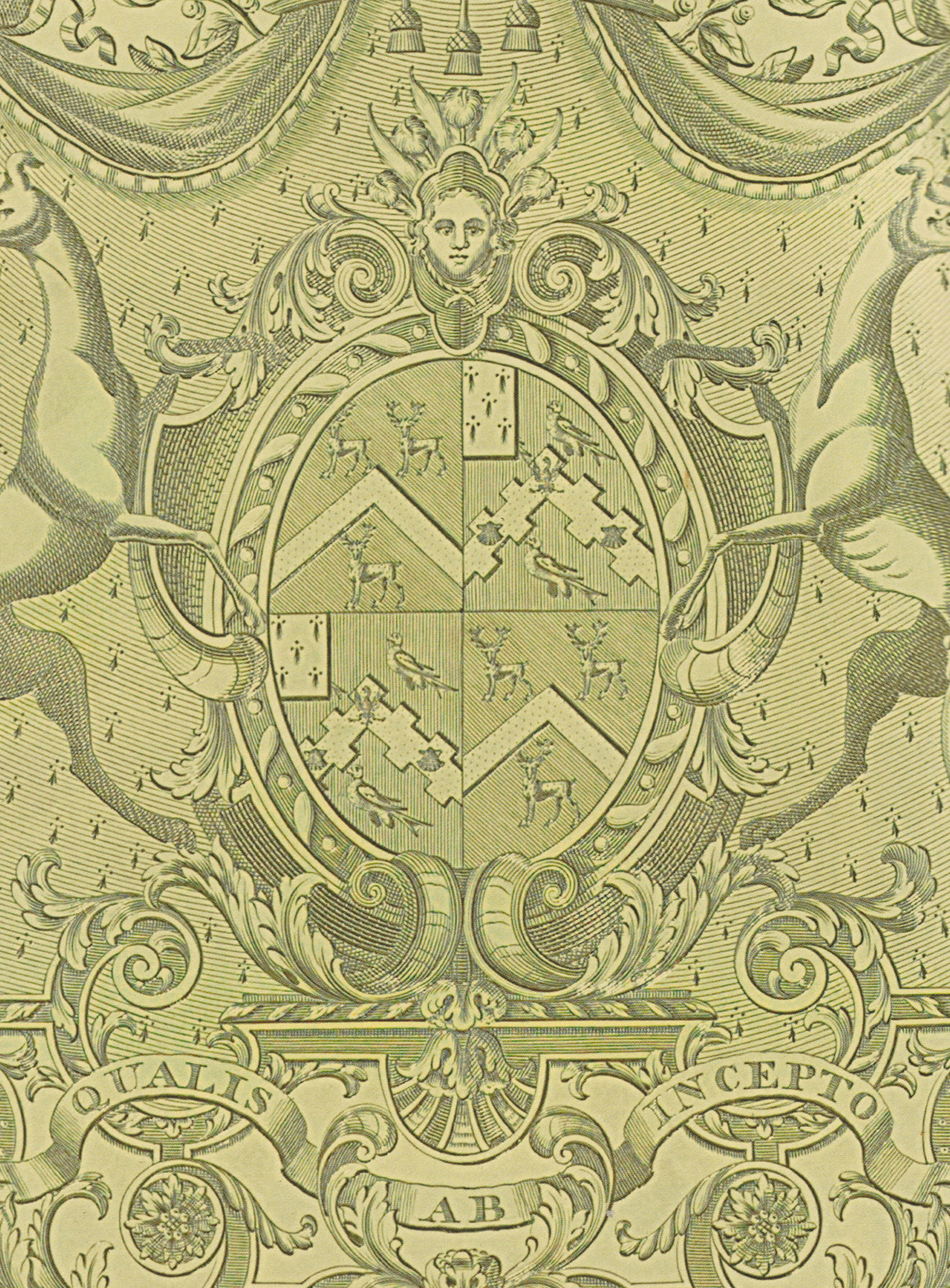 Central part of an engraved escutcheon showing Robinson quartering Weddell, on silver gilt, from a dish made by Robert Garrard, London, 1802. Arms of Thomas Philip Robinson, 3rd Baron Grantham (1781–1859) (who succeeded as 2nd Earl de Grey in 1833). Robinson (Robinson baronets of Newby (cr.1660)): Vert, a chevron between three bucks standing at gaze or.[1] Arms of Weddell: Gules, on a chevron counter-embattled or between three martlets argent an eagle displayed between two escallops sable a canton ermine.[2]